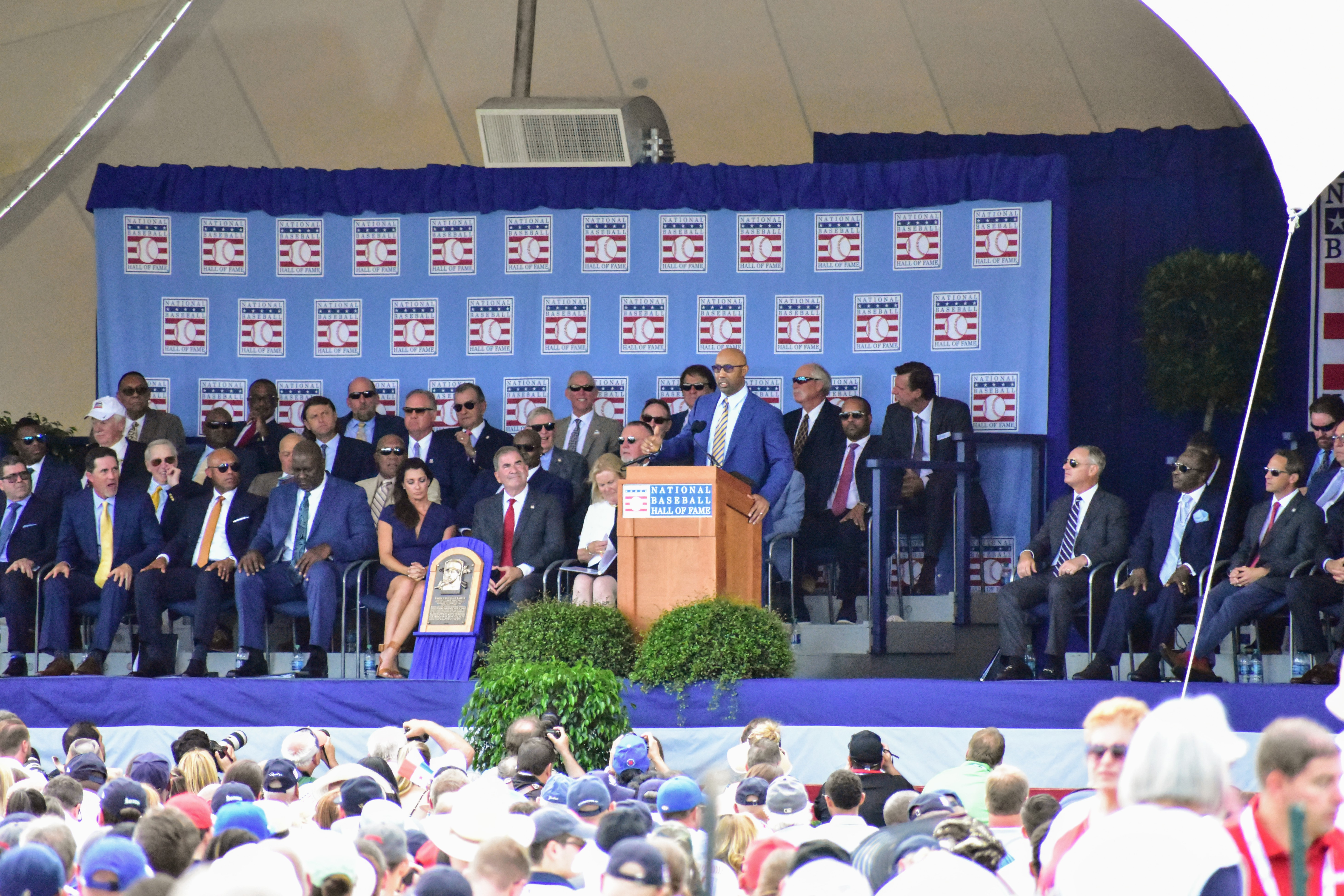 Former MLB player Harold Baines gives a speech during his induction ceremony to the National Baseball Hall of Fame on July 21, 2019